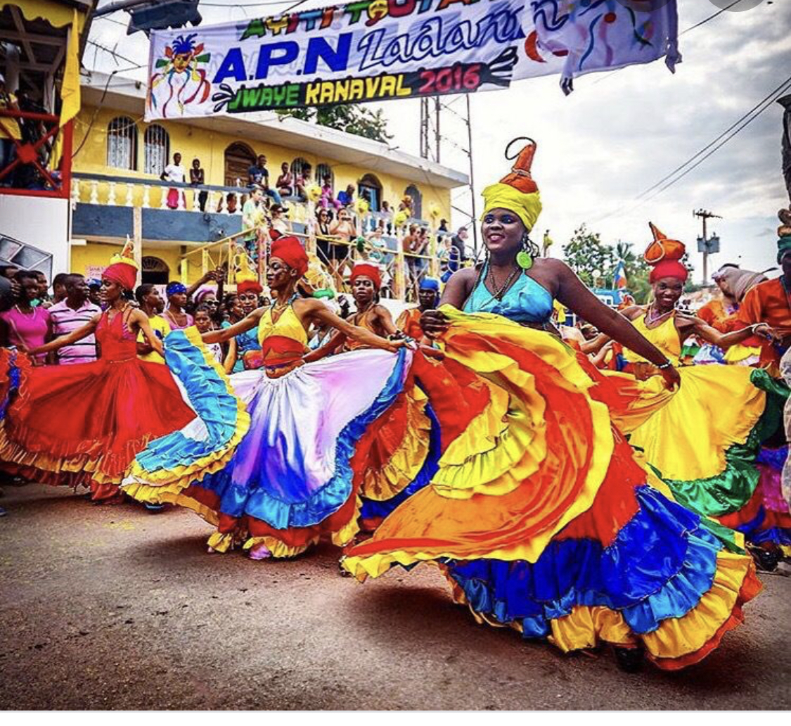 This photo has been taken in the country: Haiti